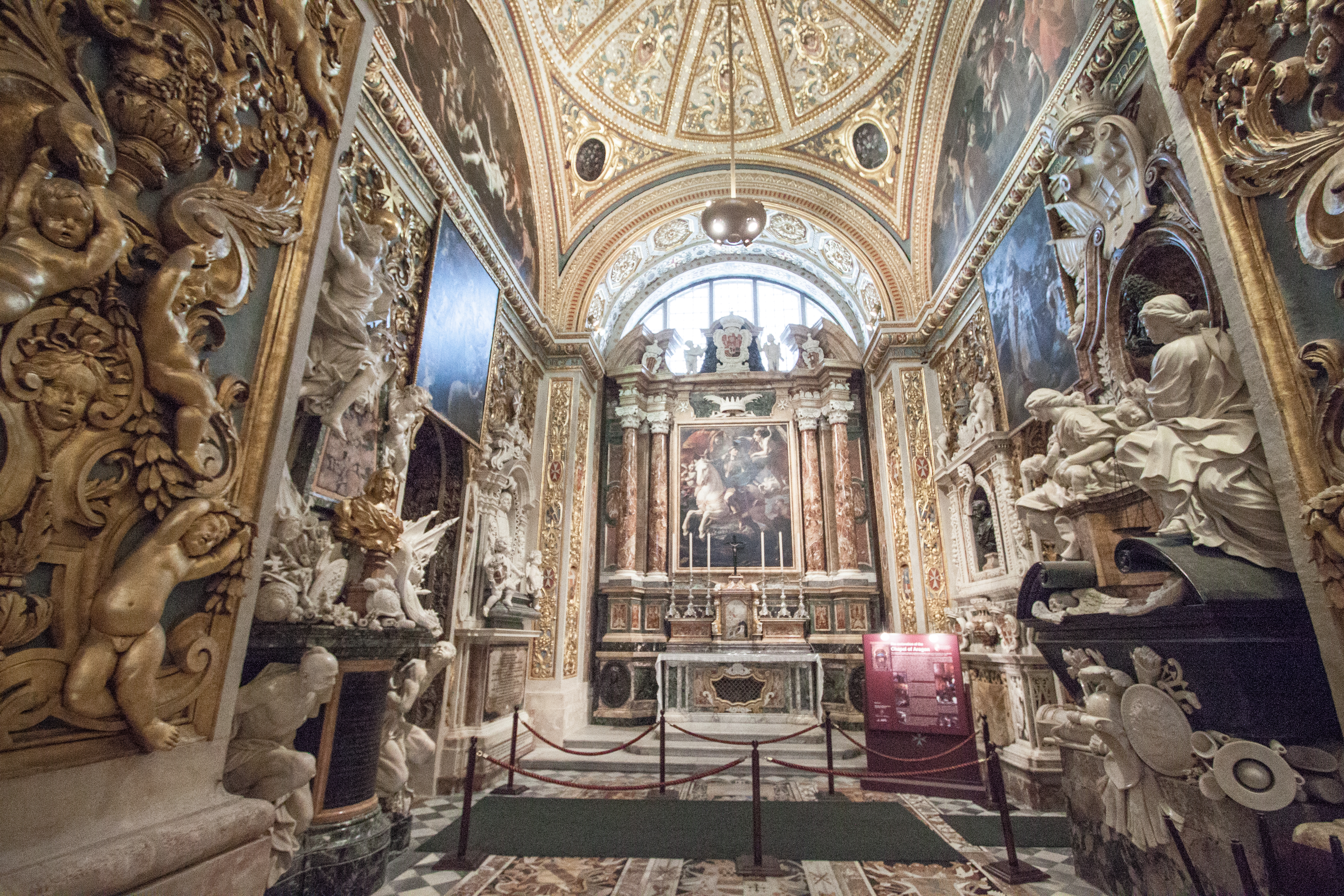 Chapel of the Langue of Aragon Catalonia and Navarre